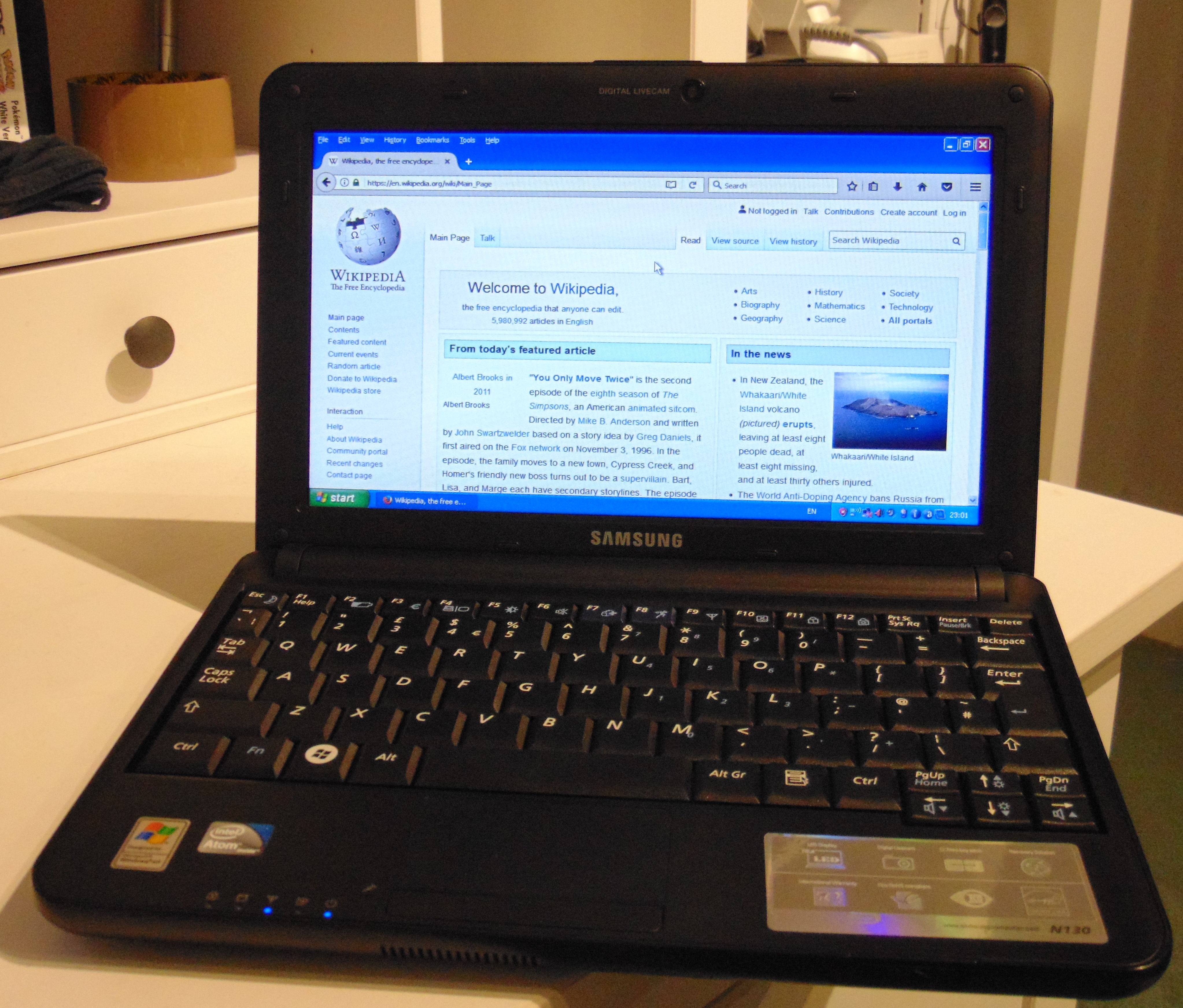 A Samsung N130 netbook running Windows XP. Even though Windows XP was being supplanted by Windows Vista and Windows 7 by 2010, it saw new use as the operating system deployed on several companies' netbook offerings, including the N130.